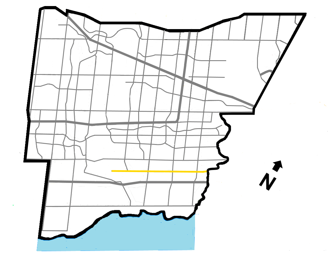 Map of The Queensway in Mississauga